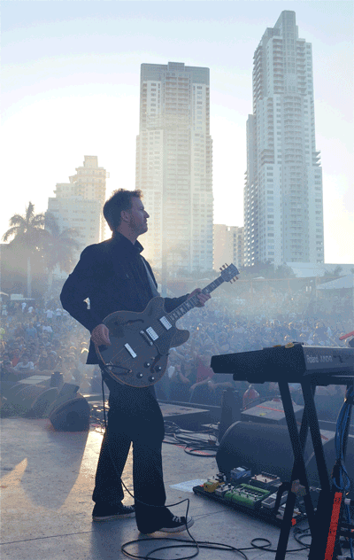 Phil Cunningham on stage with New Order in Miami, March 2012.